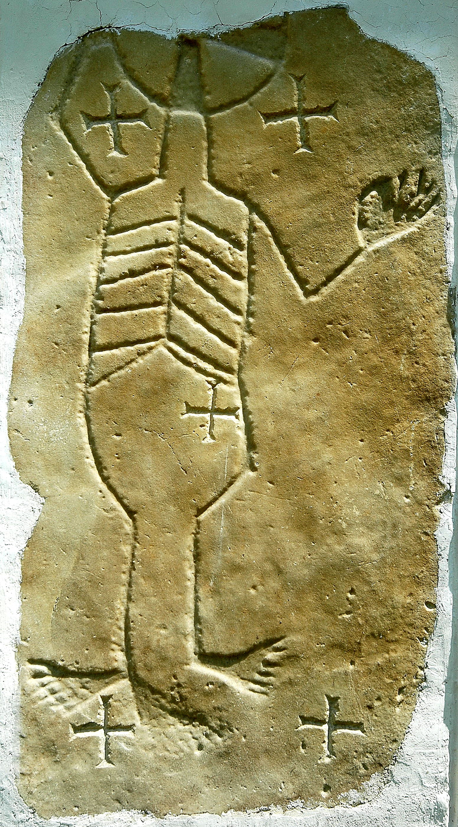 Pre-Roman carved stone-plate with human skeleton, helios head and five crosses, south wall of the parish church Saints George and Bartholomew in Keutschach, municipality Keutschach am See, district Klagenfurt Land, Carinthia, Austria, EU